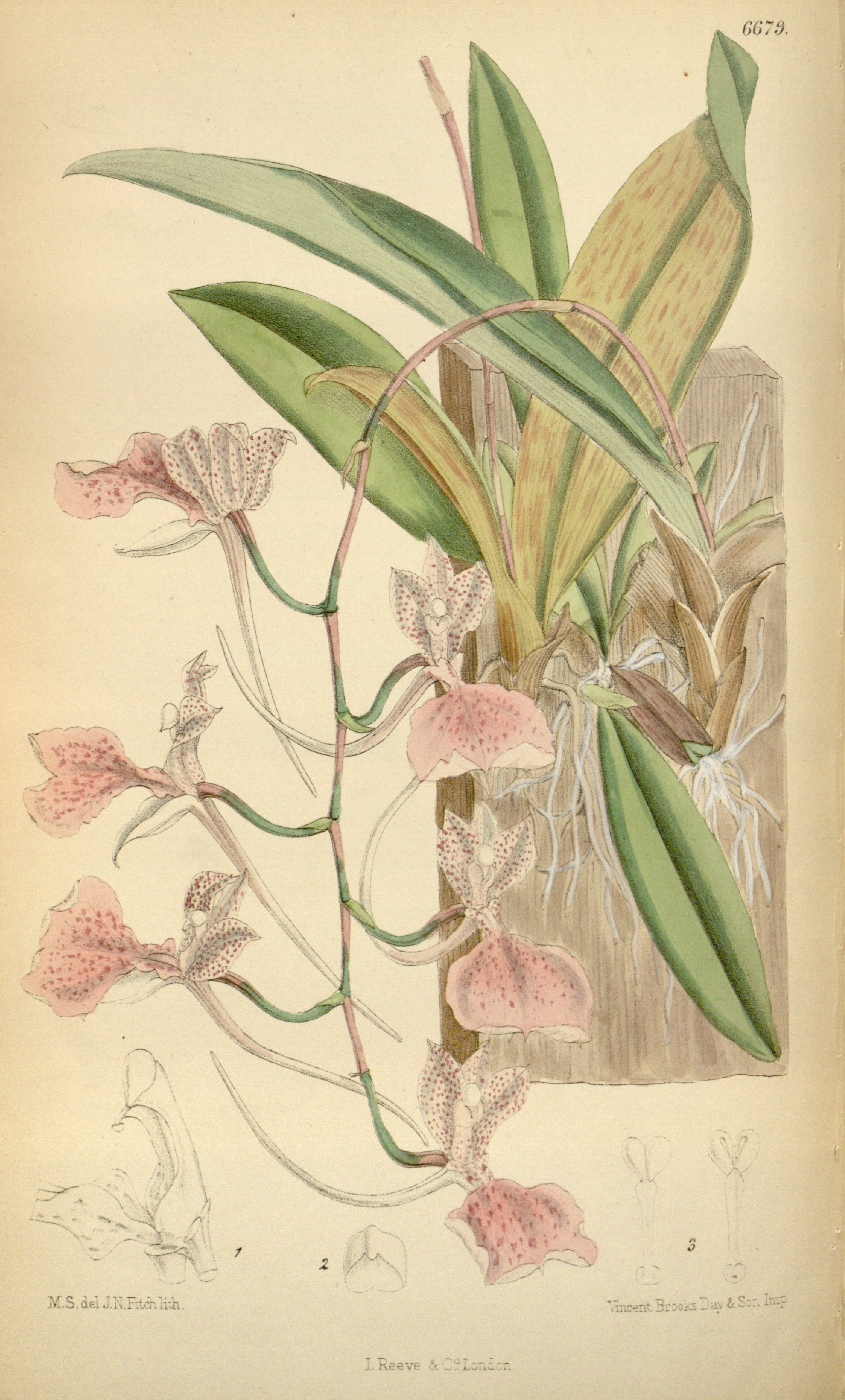 Illustration of Comparettia macroplectron